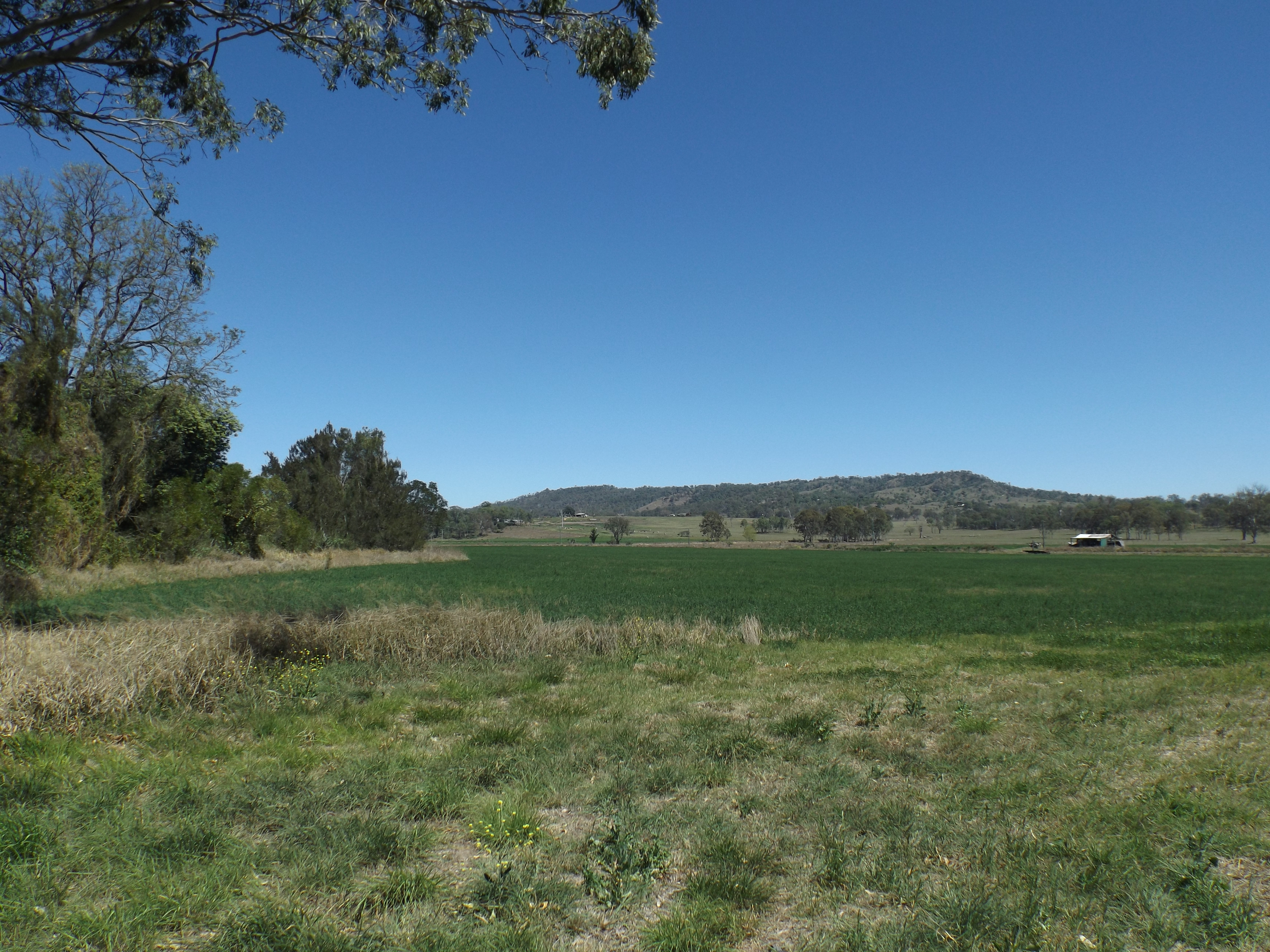 Photo of paddocks by the Albert River at Kerry, Scenic Rim Region, Queensland, Australia.